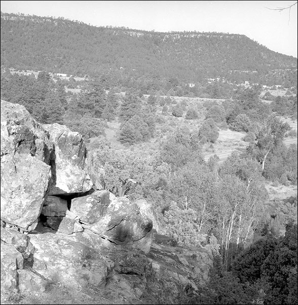 Glorieta Pass Battlefield National Historic Landmark This photograph was taken in 1990 from Sharpshooter's Ridge, just north of Pigeon's Ranch. It was the location of the Union right flank during the last day's battle. Much of the land in and around the battlefield remains intact because of its isolation from cities and the nature of the terrain.